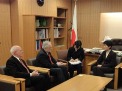 Ivo Vajgl, Member of the European Parliament, met Chinami Honda, Parliamentary Secretary for Foreign Affairs, in Japan on February 19, 2010.